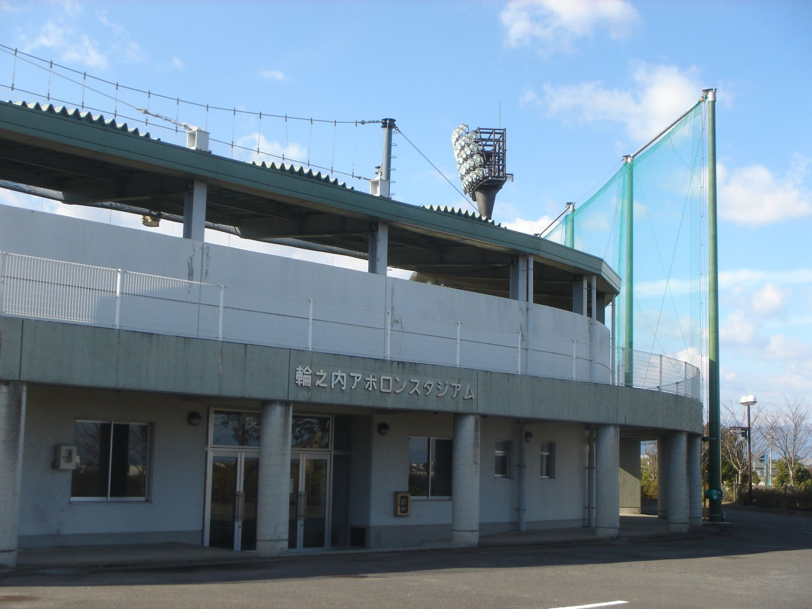 Wanouchi Apollon Stadium(輪之内アポロンスタジアム）,Wanouchi,Gifu,Japan(岐阜県輪之内町)で撮影。